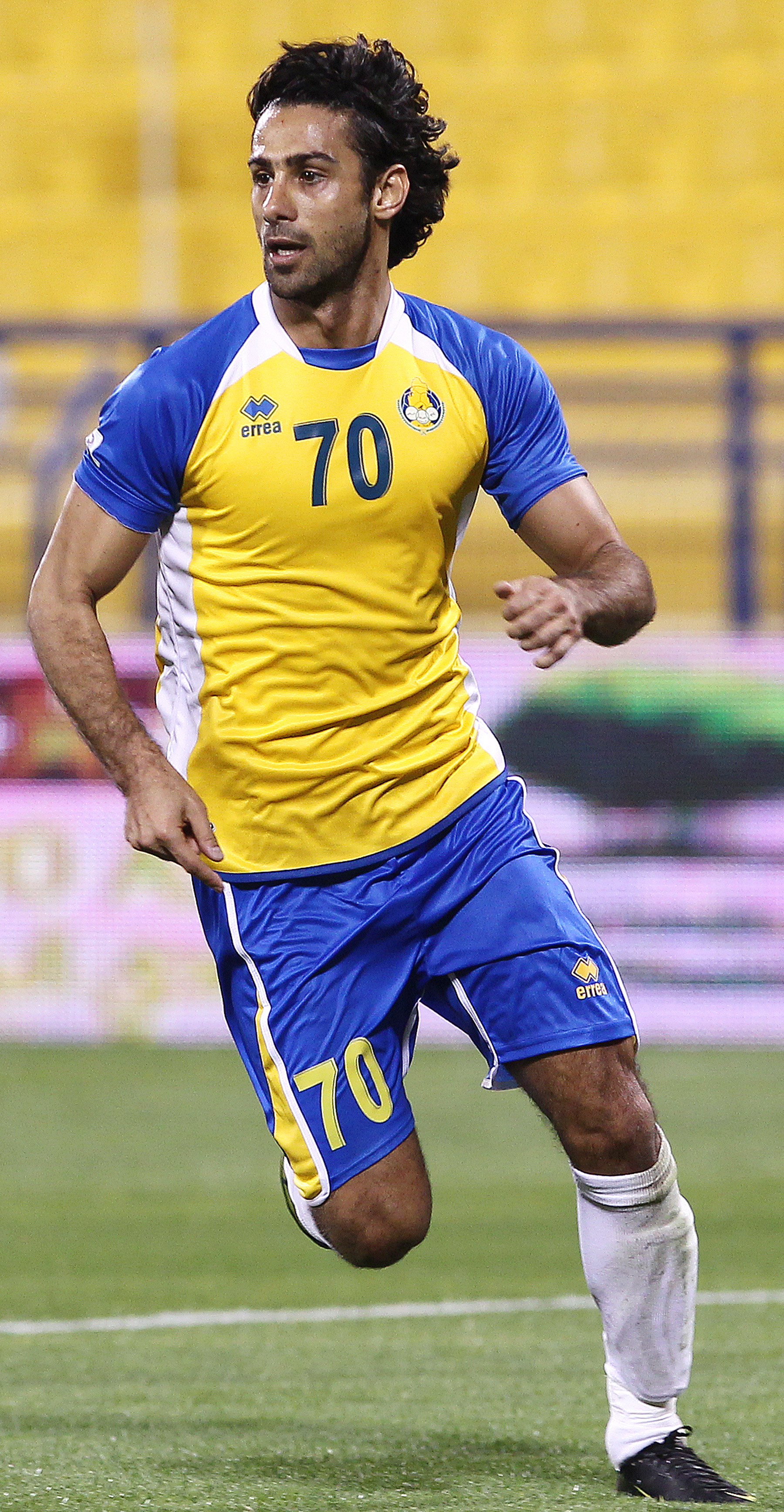 Al Gharafa's Iranian professional Farhad Majidi runs during a Qatar Stars League match. Picture by AK Bijuraj